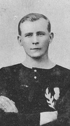 Cigarette card